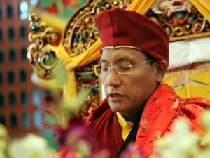 His Holiness the 12th Gyalwang Drukpa, the spiritual leader of Ladakh.